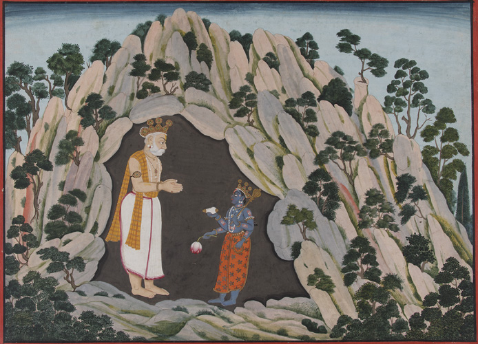 Vishnu Appears to King Muchukunda in a Cave in the Himalayas dated 1769 Unidentified, Indian Opaque watercolor and gold on paper H: 27.0 W: 37.4 cm Punjab Hills, India Purchase F1999.13